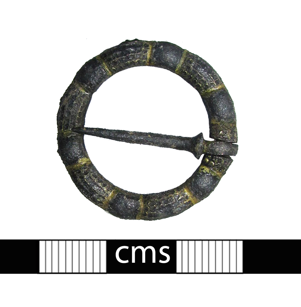 Medieval brooch: Annular brooch